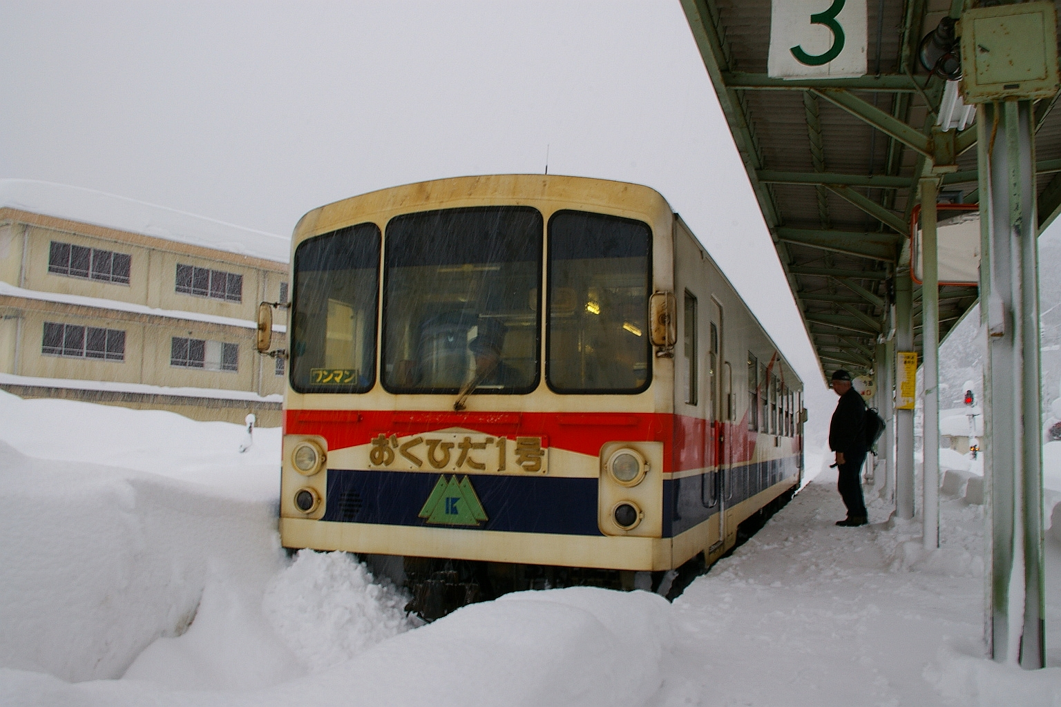 Kamioka Railway series KM100 at Inotani Station